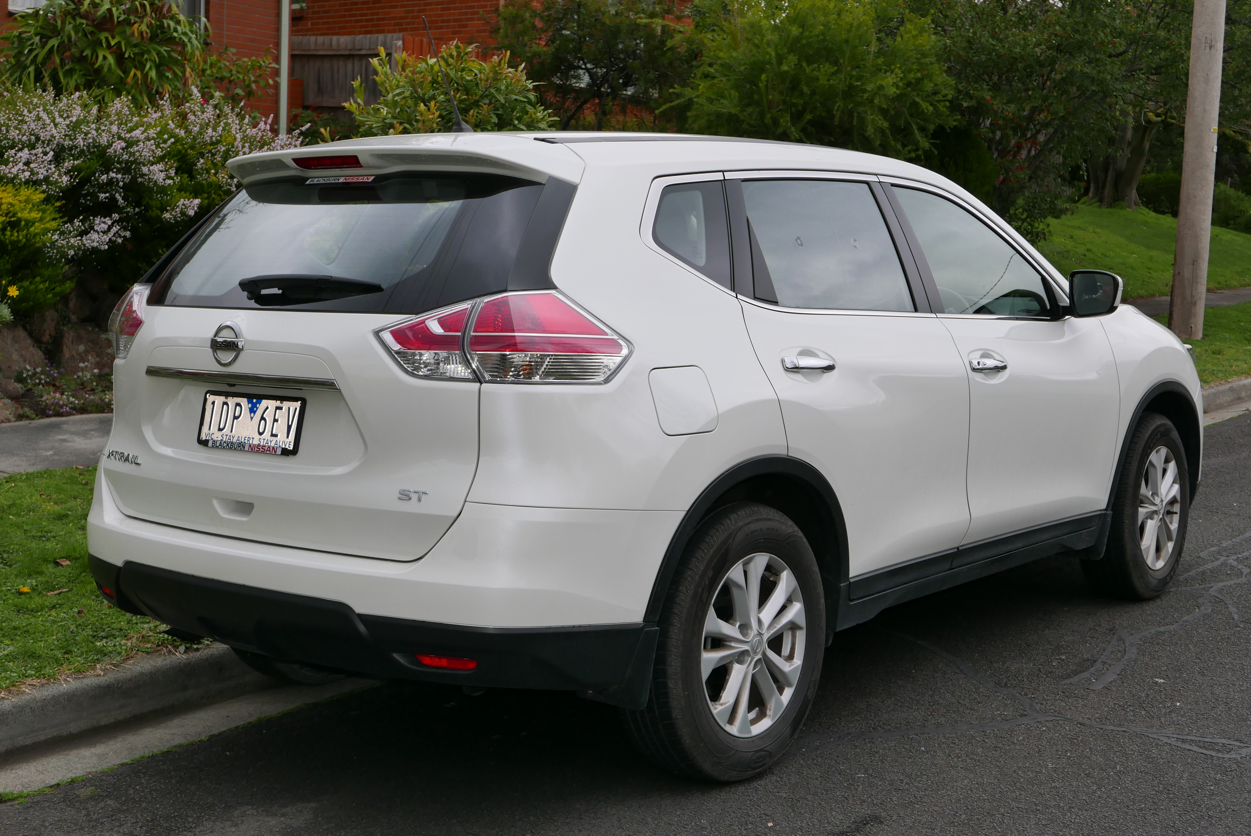 2014 Nissan X-Trail (T32) ST 2WD wagon. Photographed in Doncaster East, Victoria, Australia. Vehicle registration enquiry resultsJurisdictionVictoriaRegistration1DP6EVChassis codeJN1TBAT32A0003822Engine codeQR25157136LCompliance date2014-11Year of manufacture2014